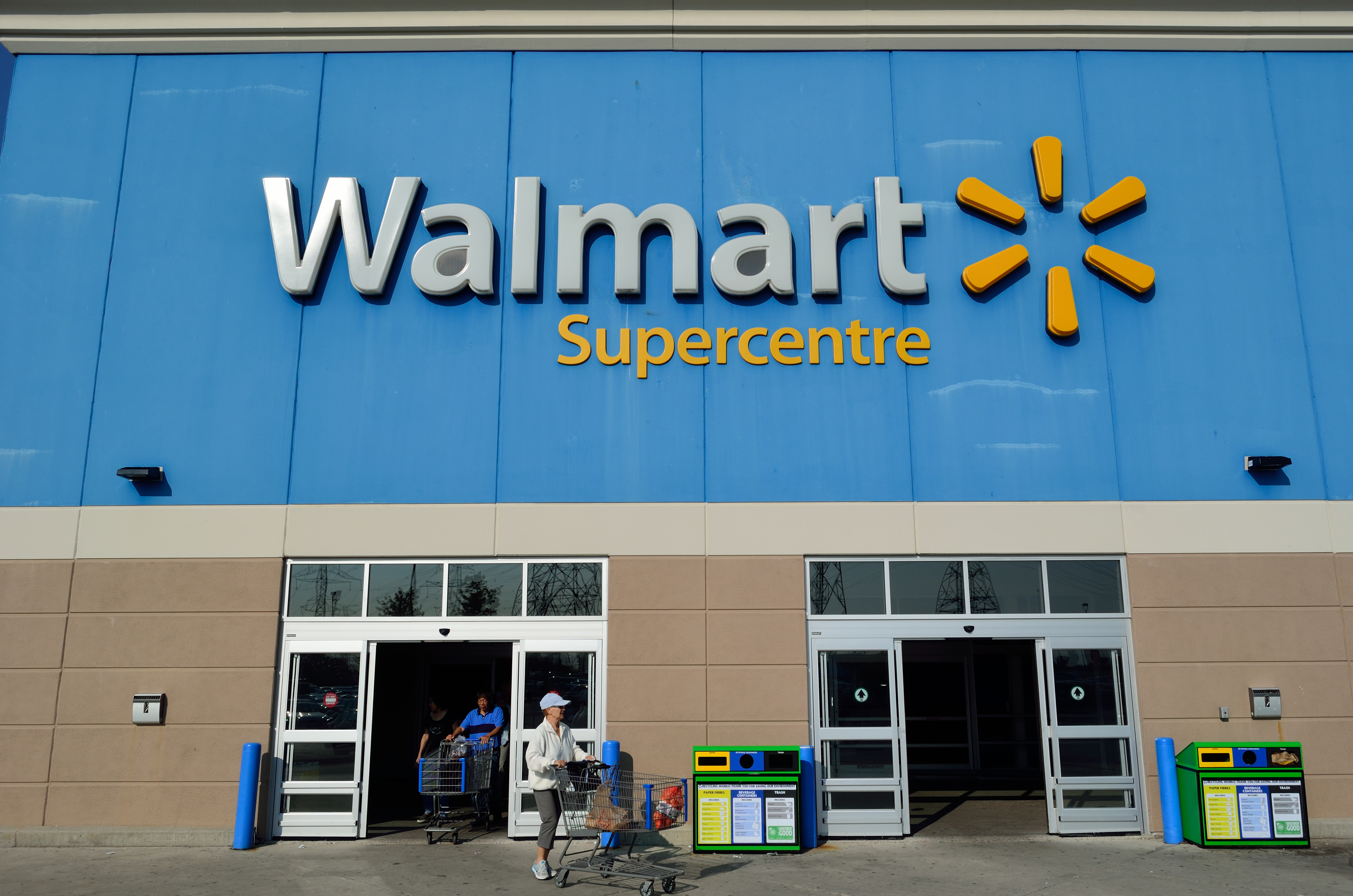 Walmart at Bayview & Hwy 7 in Richmond Hill